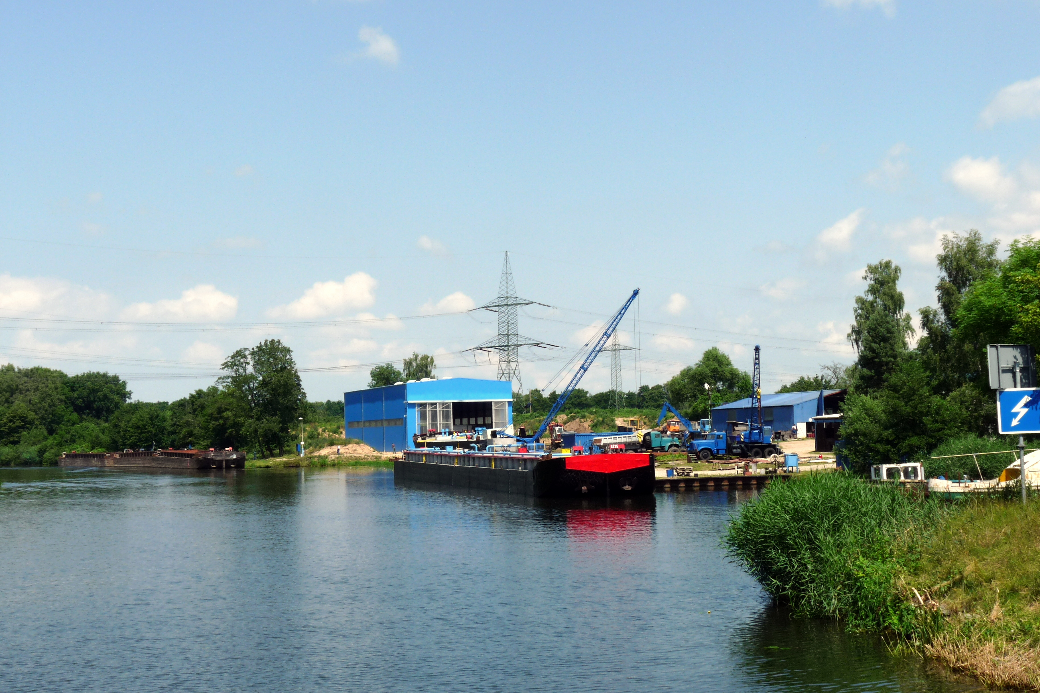 Ship yard named Schiffswerft Bolle at north bank of canal (Pareyer Verbindungskanal)